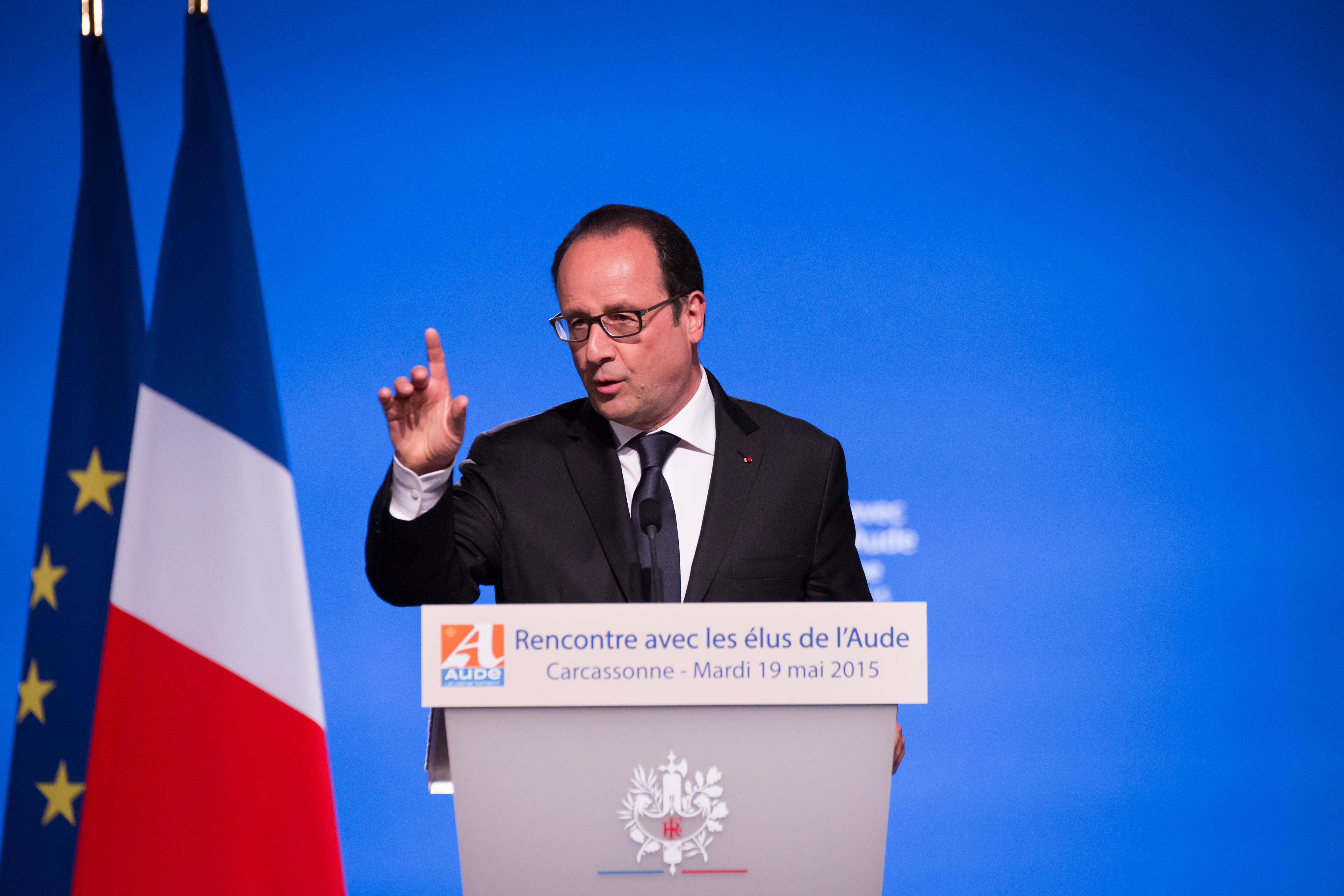 The President of the French Republic François Hollande, May 19, 2015 in Carcassonne. Aude - Languedoc Roussillon